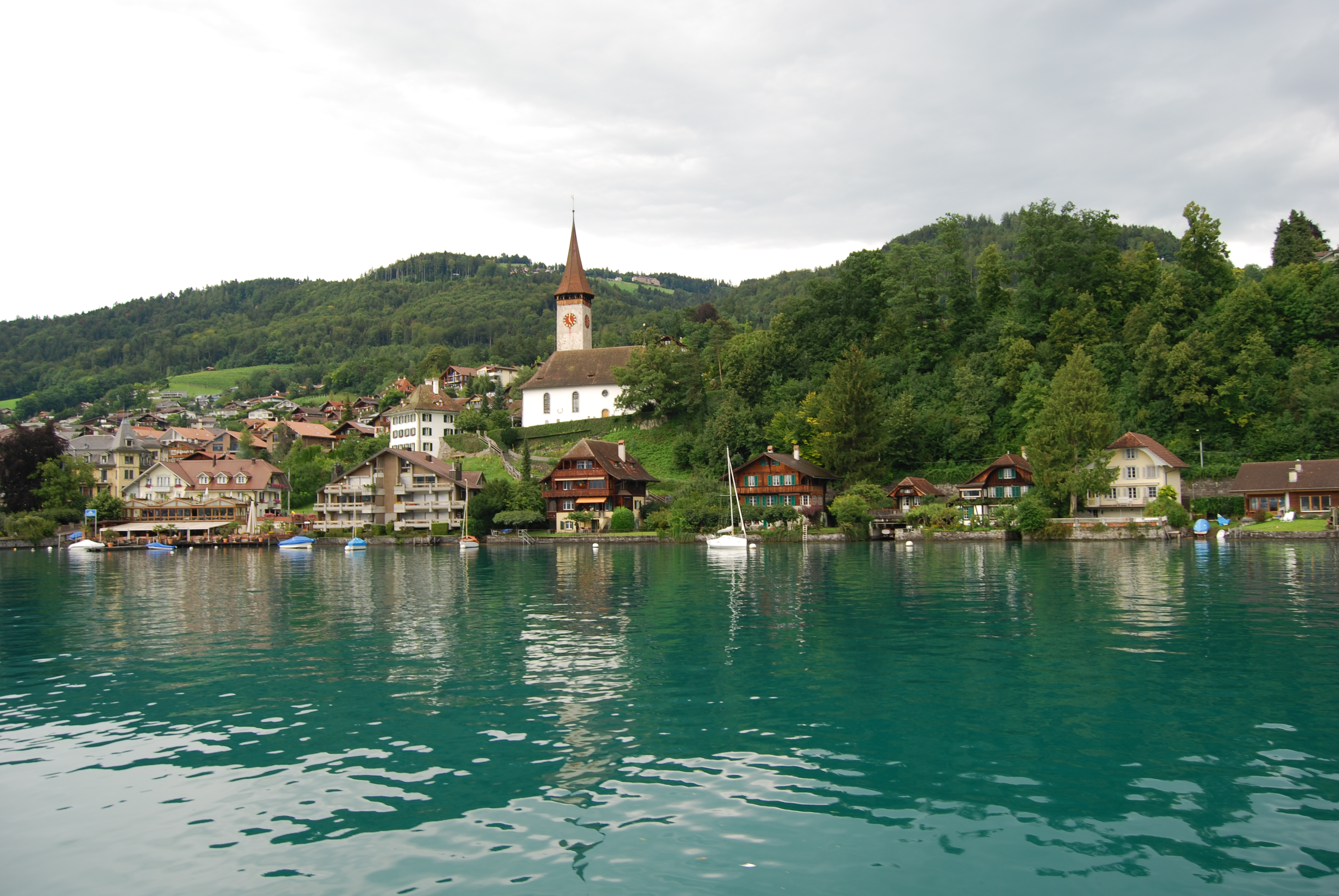 Church of Hilterfingen, canton of Bern, Switzerland